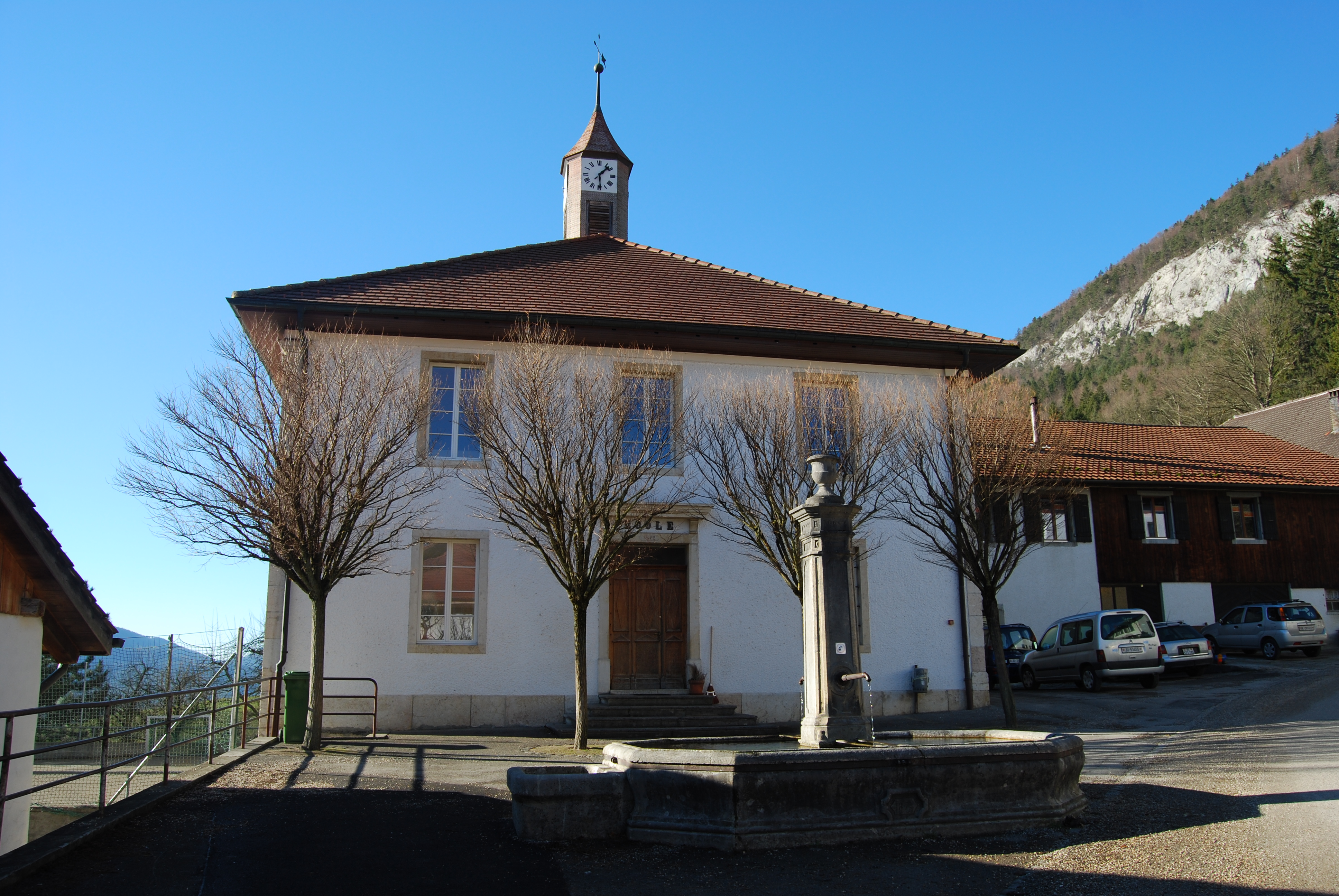 School building of Belprahon, canton of Bern, SwitzerlandEsperanto: Lernejo de Belprahon, Kantono Berno, Svislando